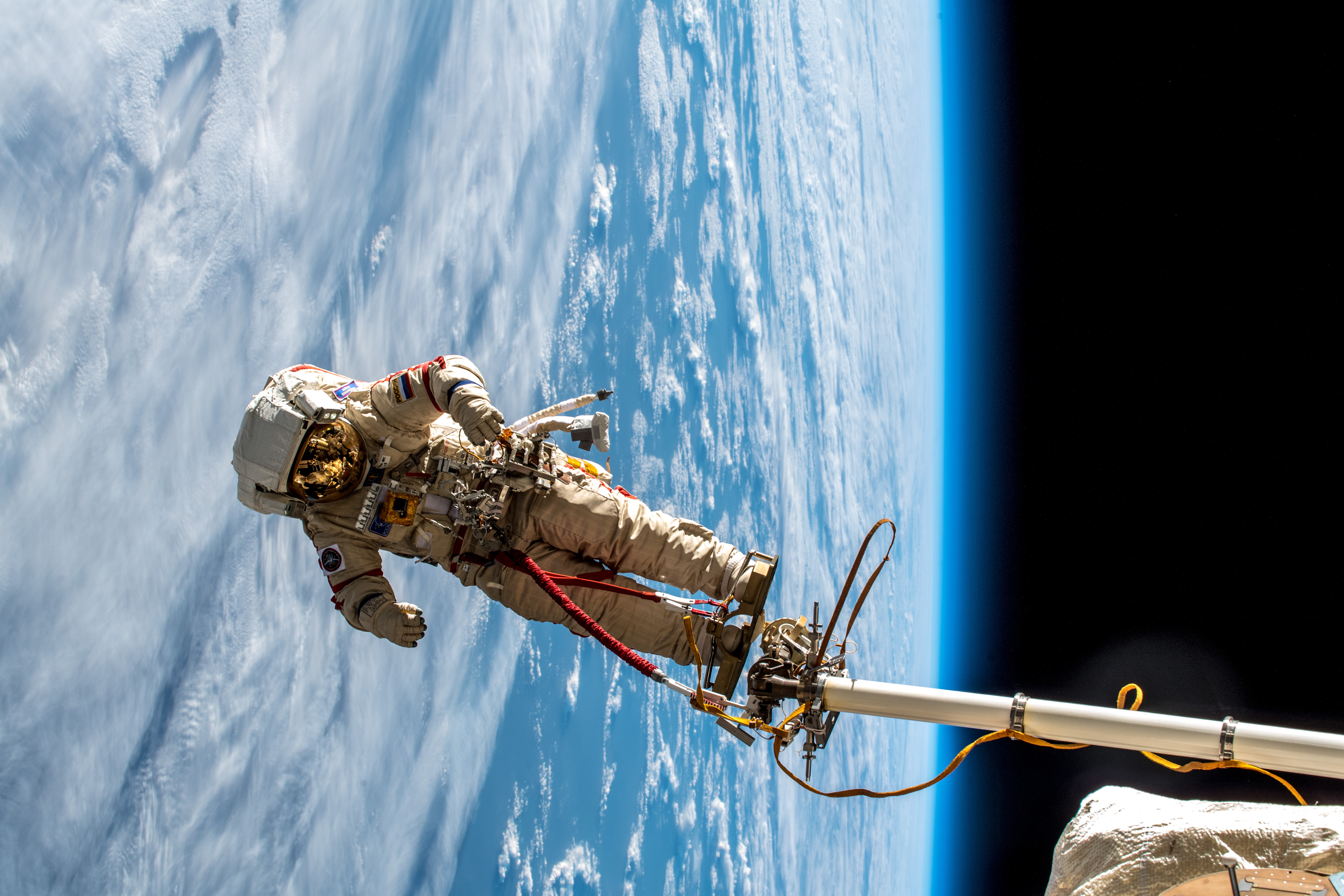 Isn’t it amazing the environments in which humans can live if they try hard? ID: 401V1873 Credit: ESA/A.Gerst